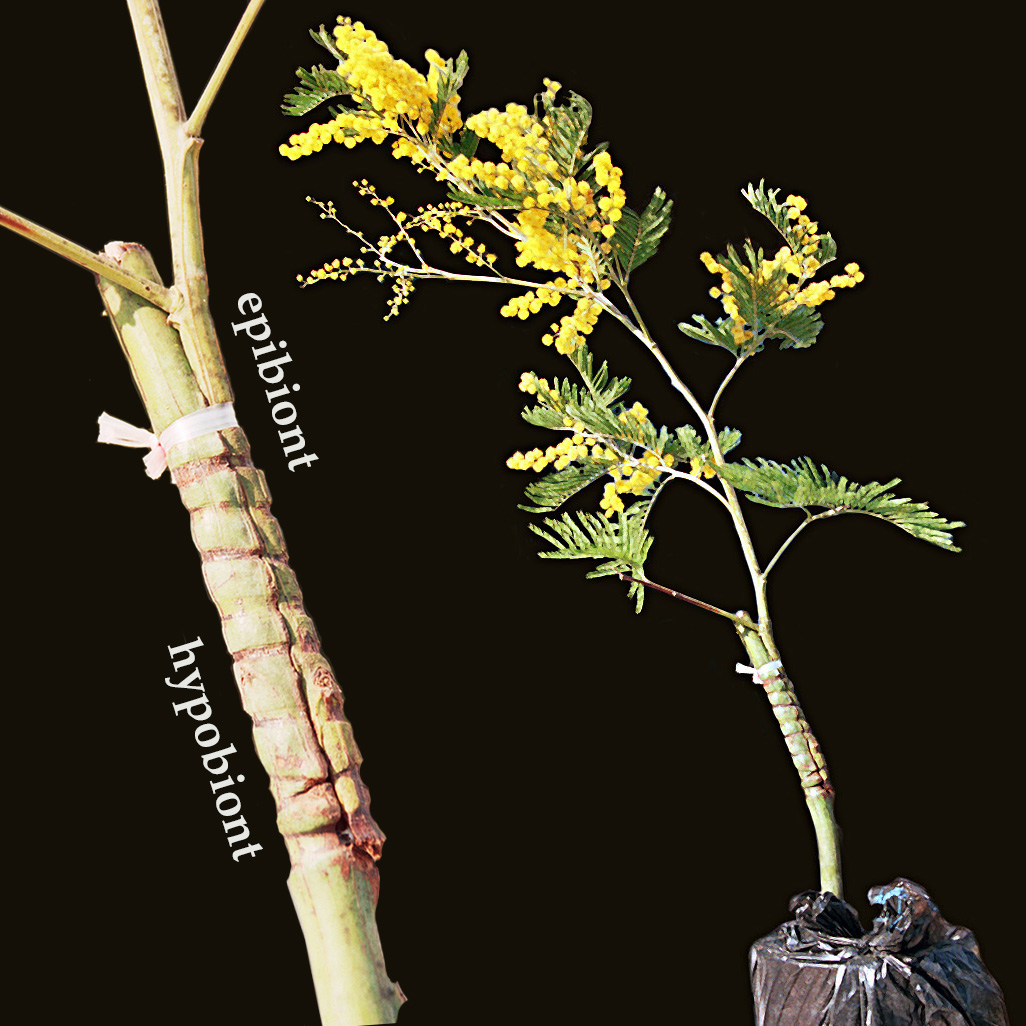 Grafting by approach of Acacia